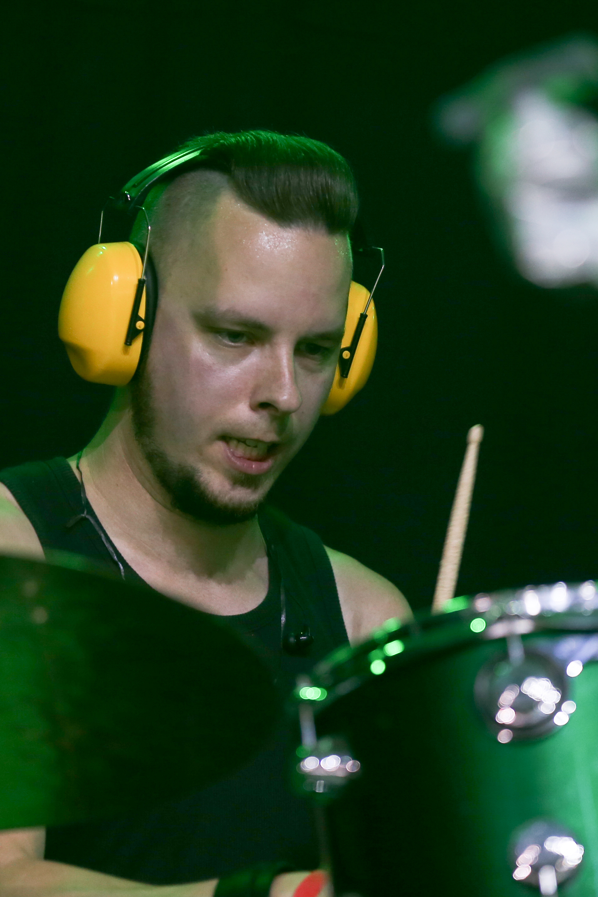 Przystanek Woodstock in 2016.